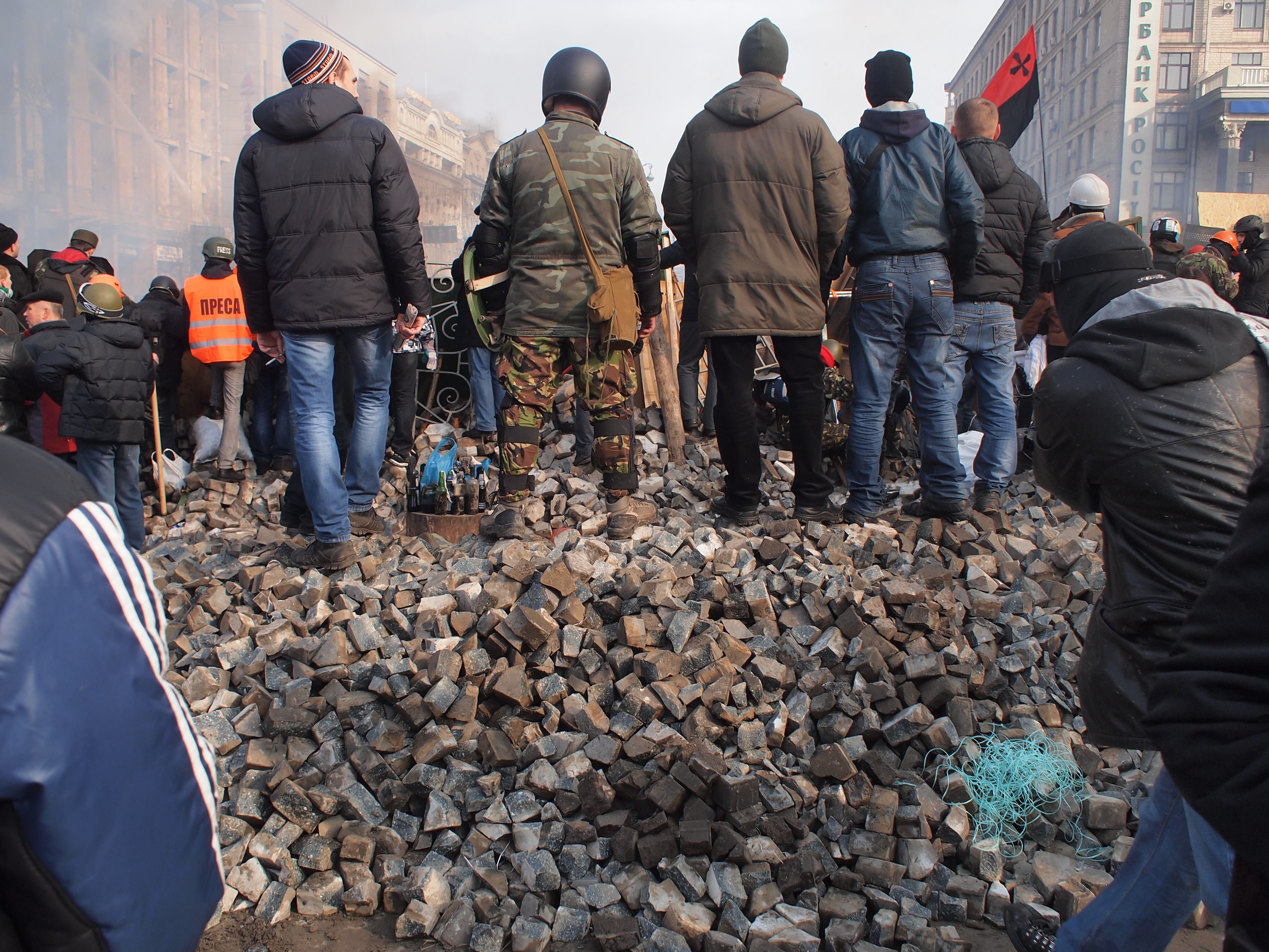 Euromaidan in Kiev, 19 February 2014. Protesters are standing on a pile of fractured pavement and looking into lines of policemen.